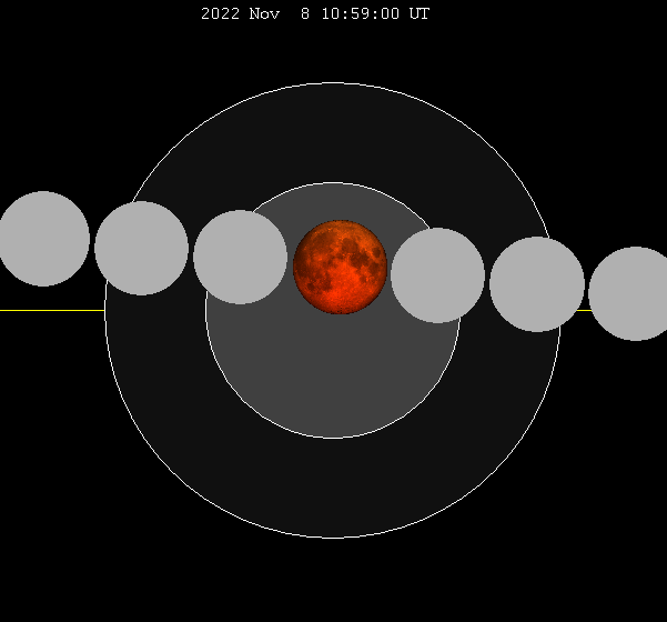 November 2022 lunar eclipse chart of moon's total lunar eclipse path through the earth's shadow. thumb